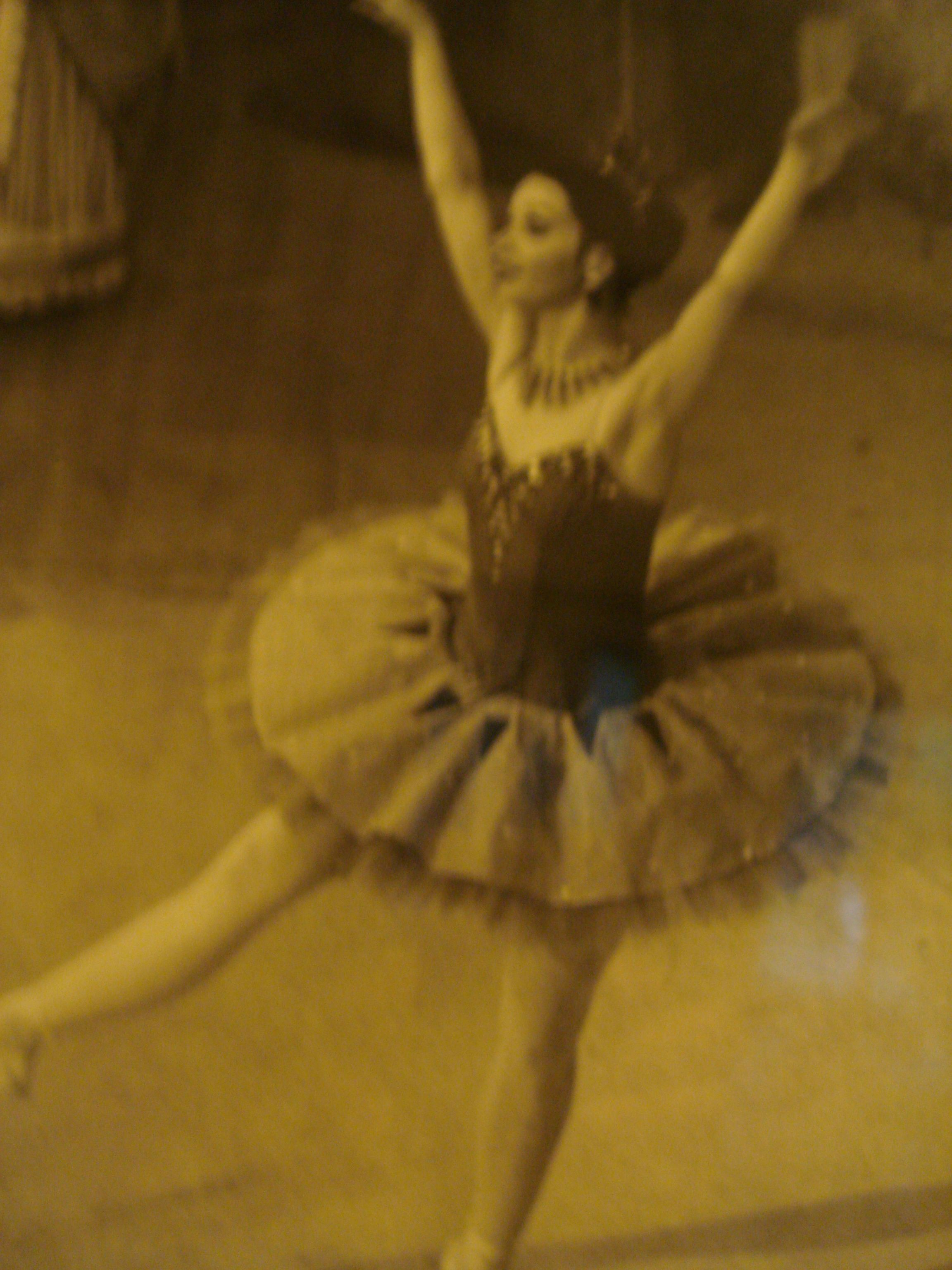 This is the ballet dancer Roma Egan in a rehearsal of Sleeping Beauty in the 1970s.